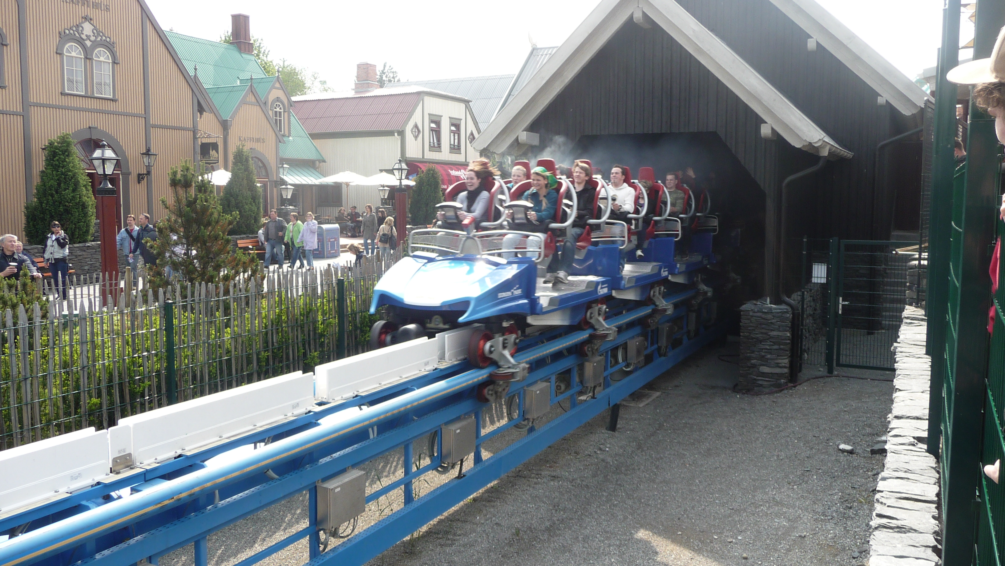 Blue Fire launch, in Europa Park (Rust, Germany)